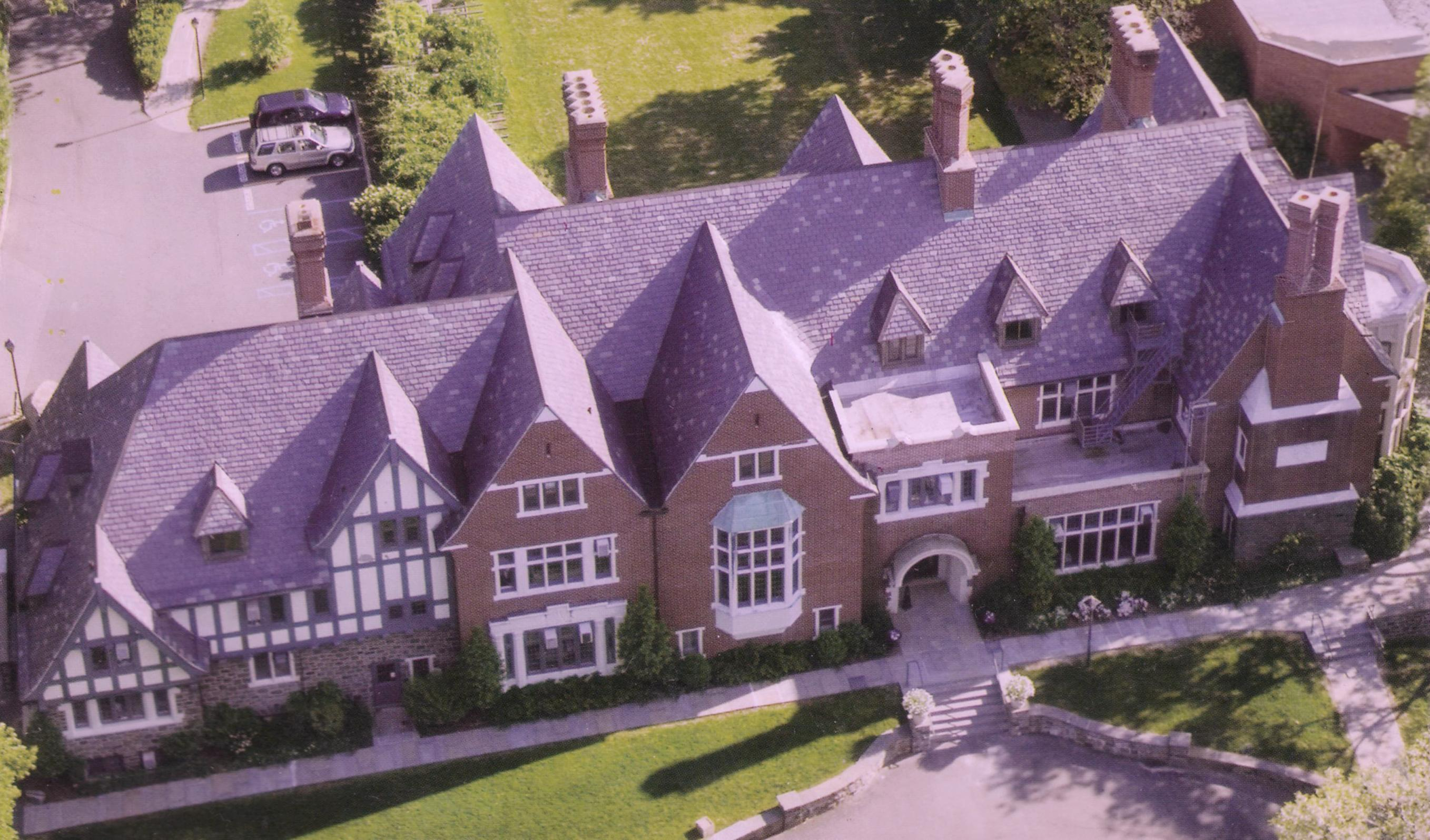 This is an arial photo taken by myself of Westlands at Sarah Lawrence